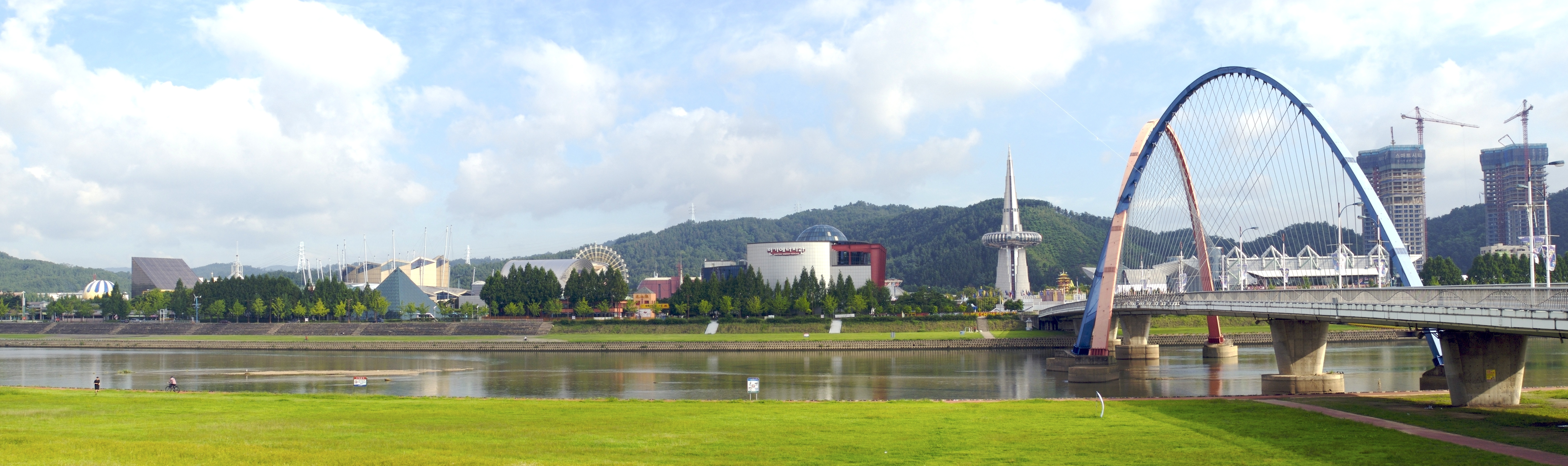 Panorama of the Expo Science Park in Daejeon, South Korea. It was stitched from four photographs that were taken from across Gapcheon.